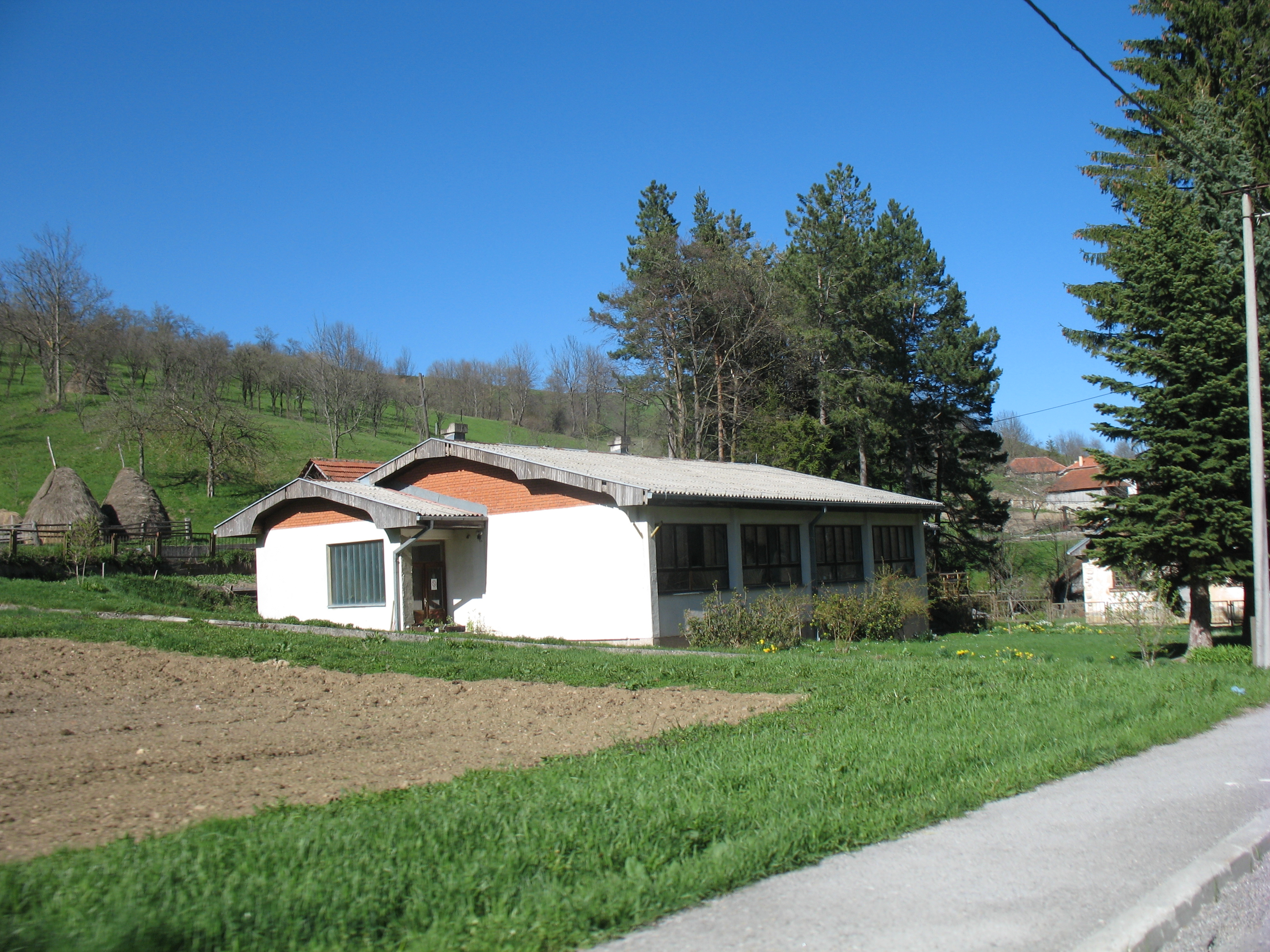 School in Brzeće, near Brus, Serbia.